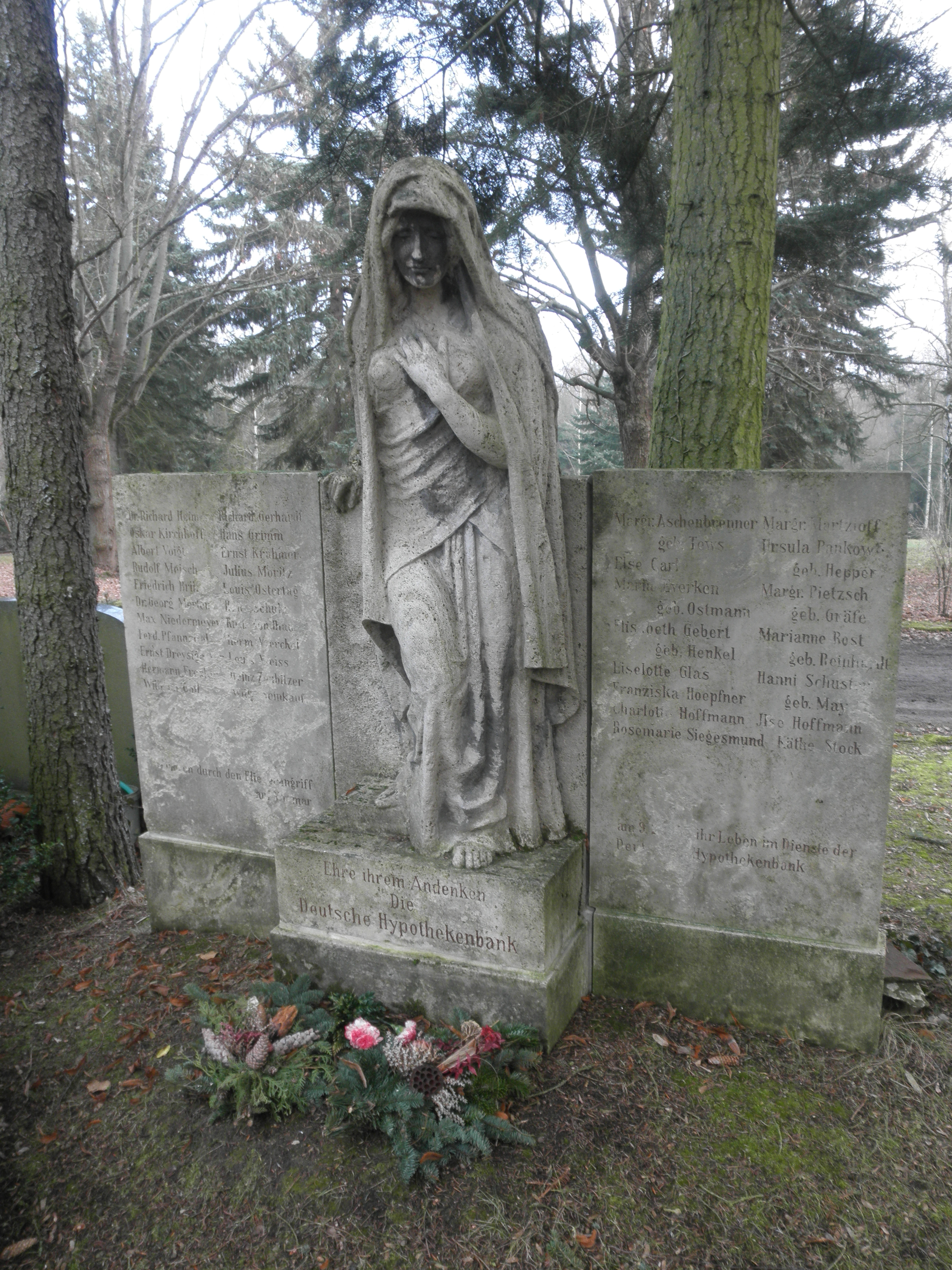 Monument for bombing victims of a bank in 1945 in Weimar in Thuringia